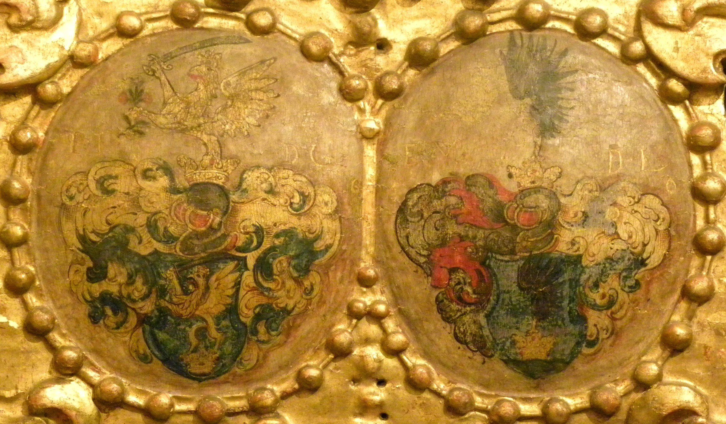 Coats of arms of Pál Esterházy and Éva Viczay. Slovak National Gallery, Bratislava. Altar from Zvolen Castle.